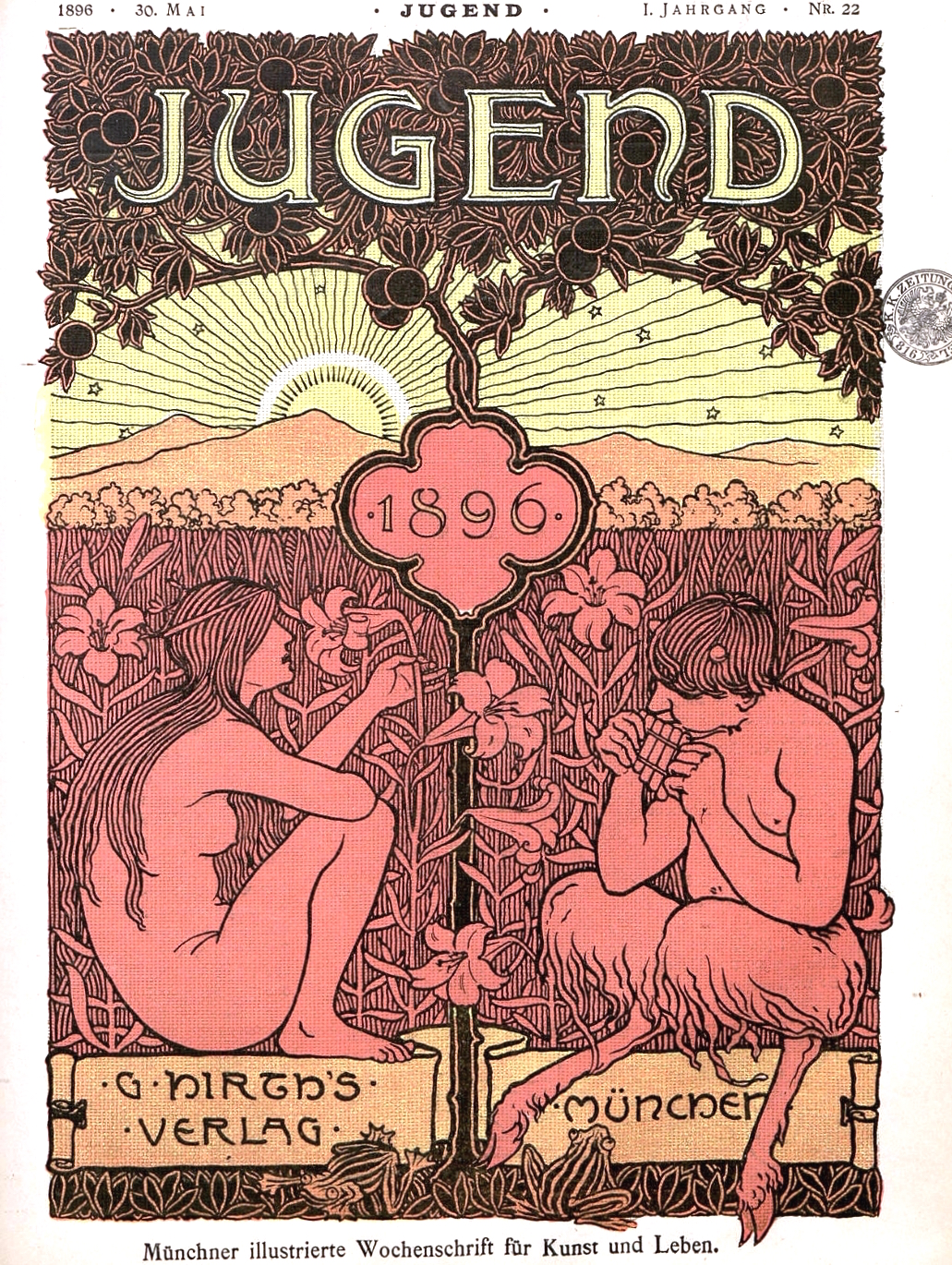 The front cover of the magazine Jugend of 30 May 1896